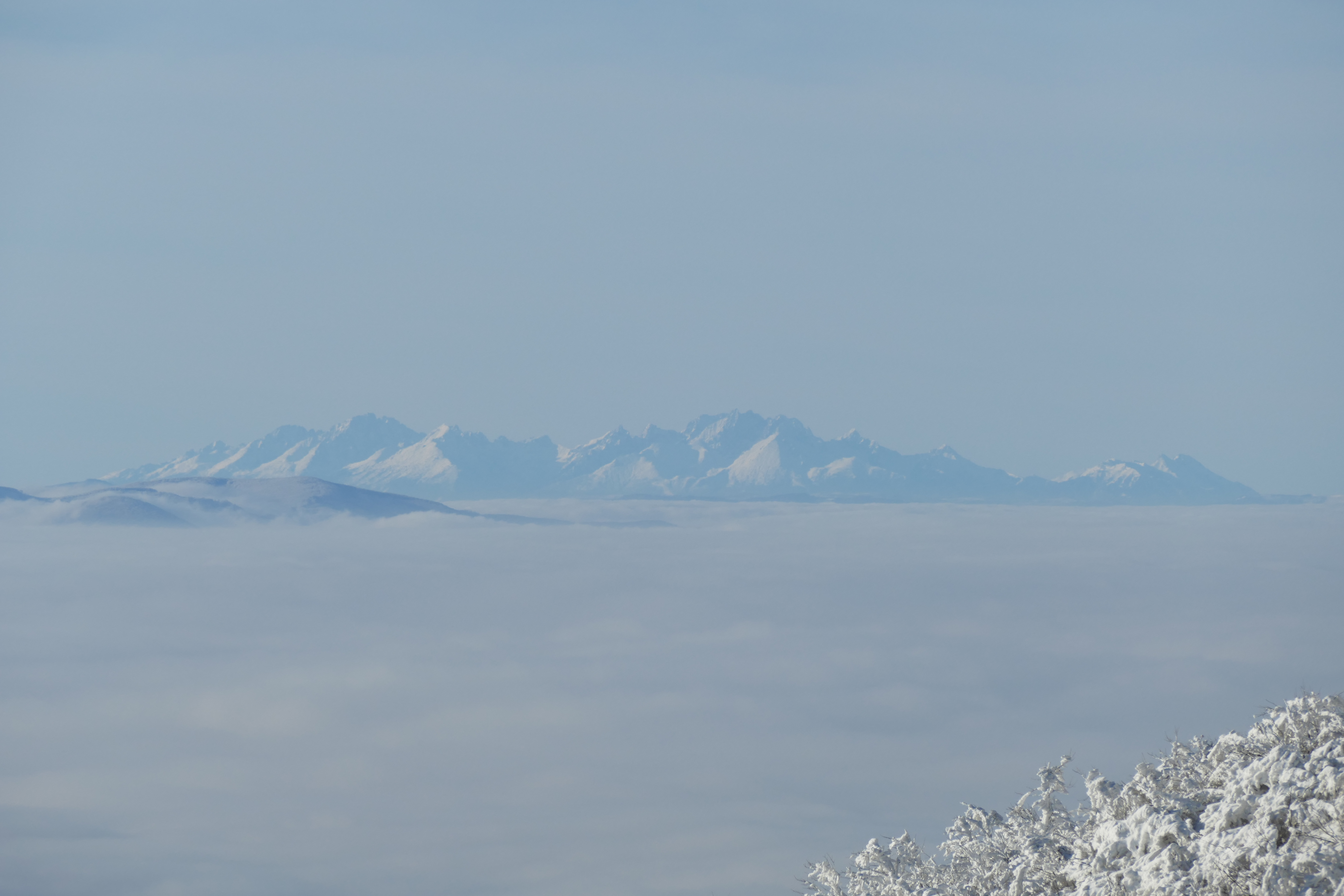 View of Vysoké Tatry from the eastern top of Vihorlat peak, distance ca 140-160 km